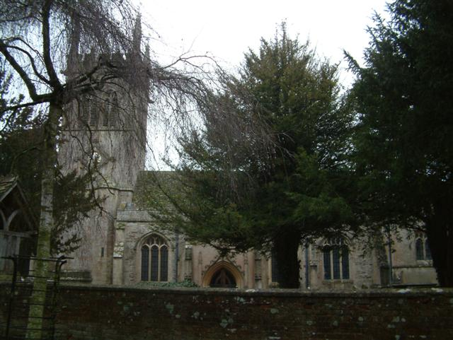 St. Lawrence's Church, Hilmarton.